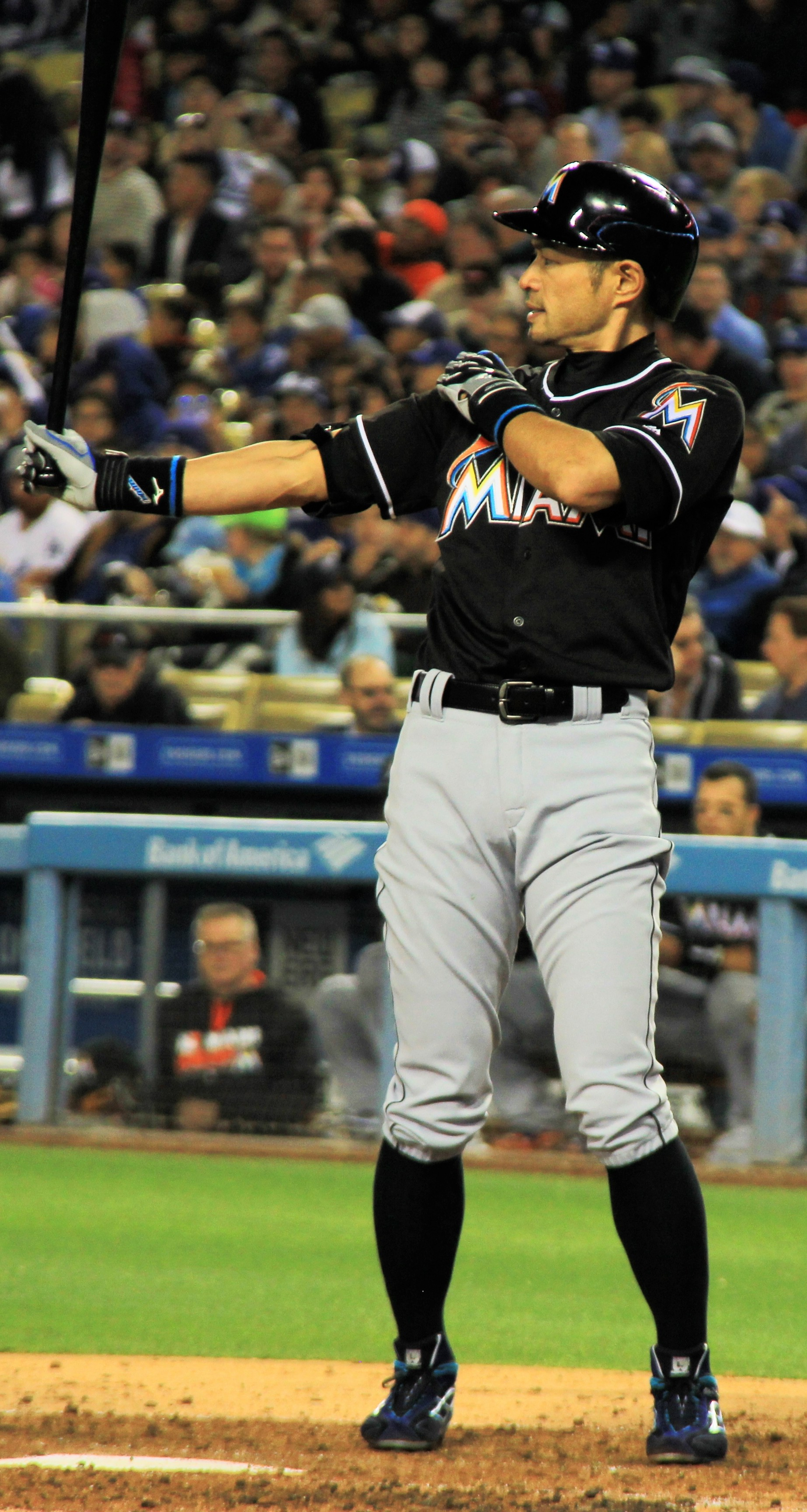 Ichiro Suzuki signature batting motivation 2016